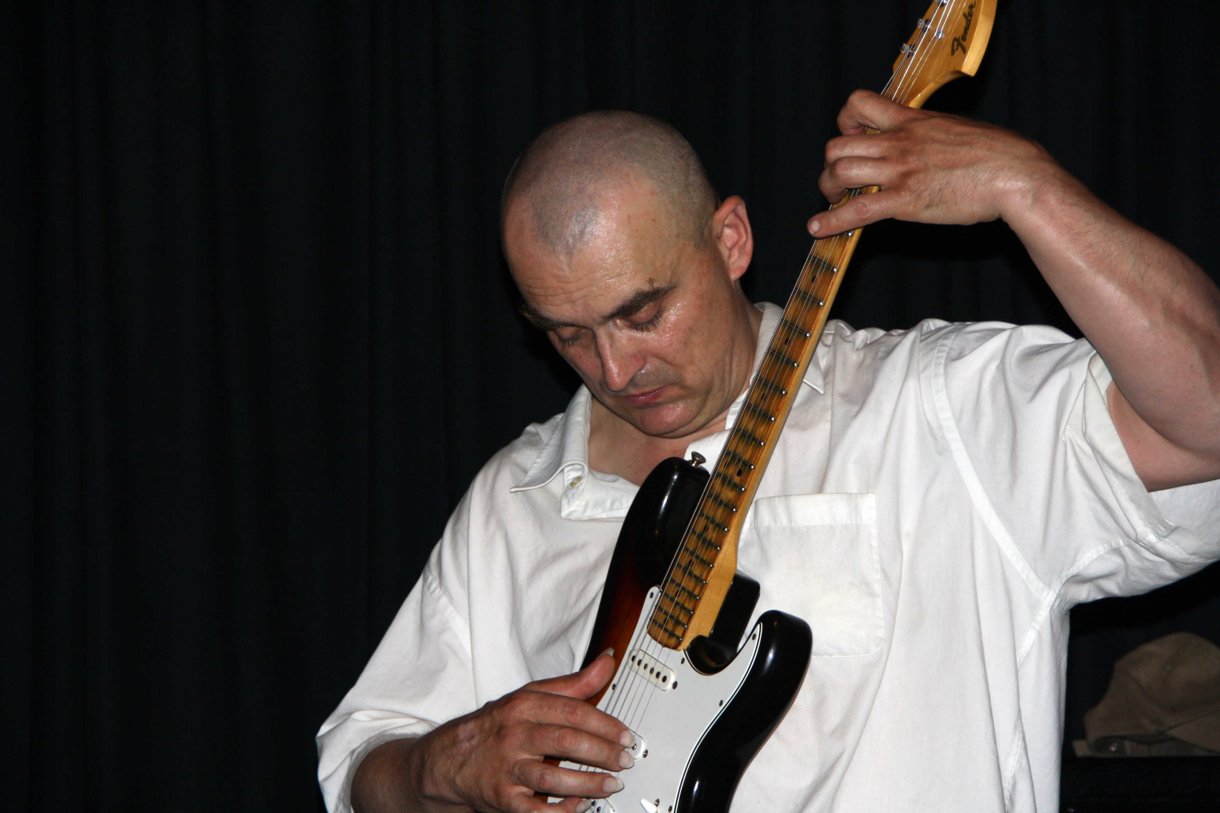 Olaf Rupp in concert with Marina Pliakas and Michael Wertmüller at Club W71, Weikersheim